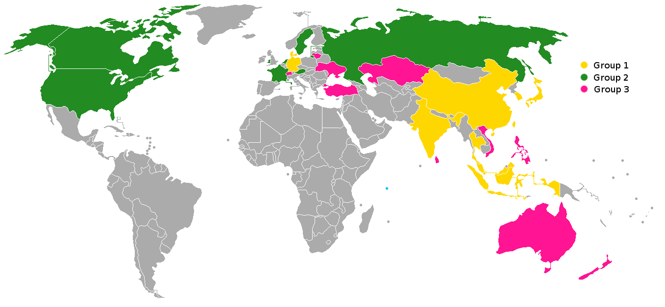 Nations participating in the Sudirman Cup in 2013.